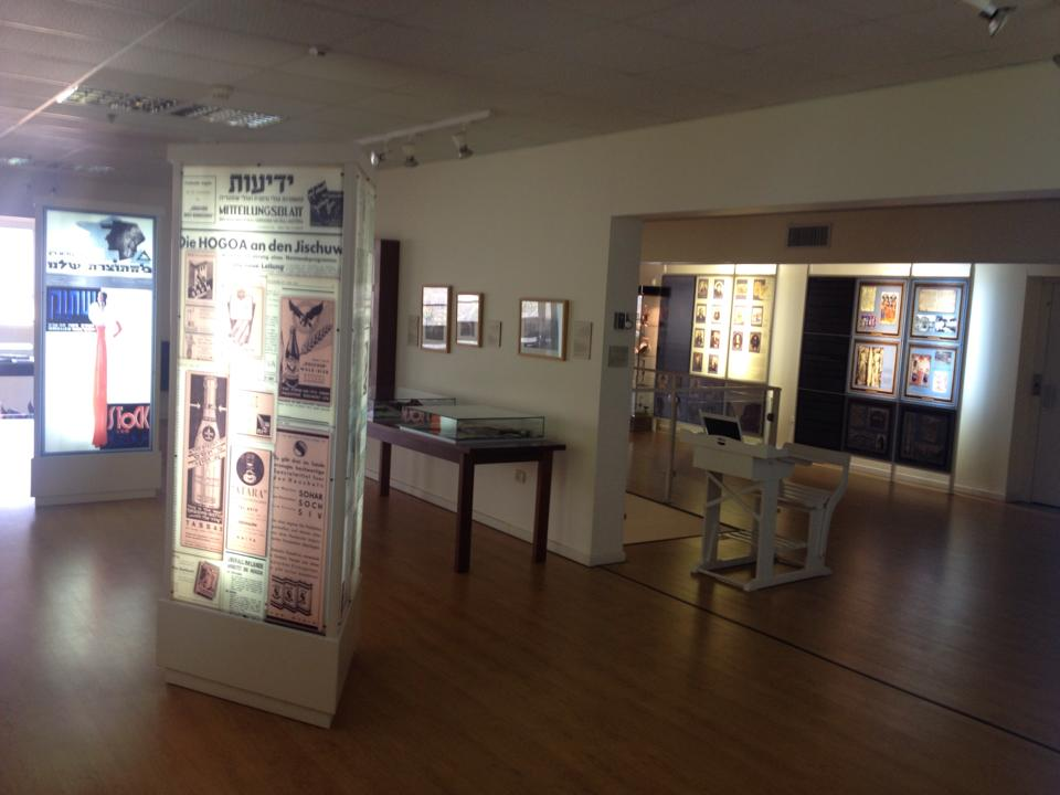 Second floor of the permenent exhibition; no readable info-texts; own work